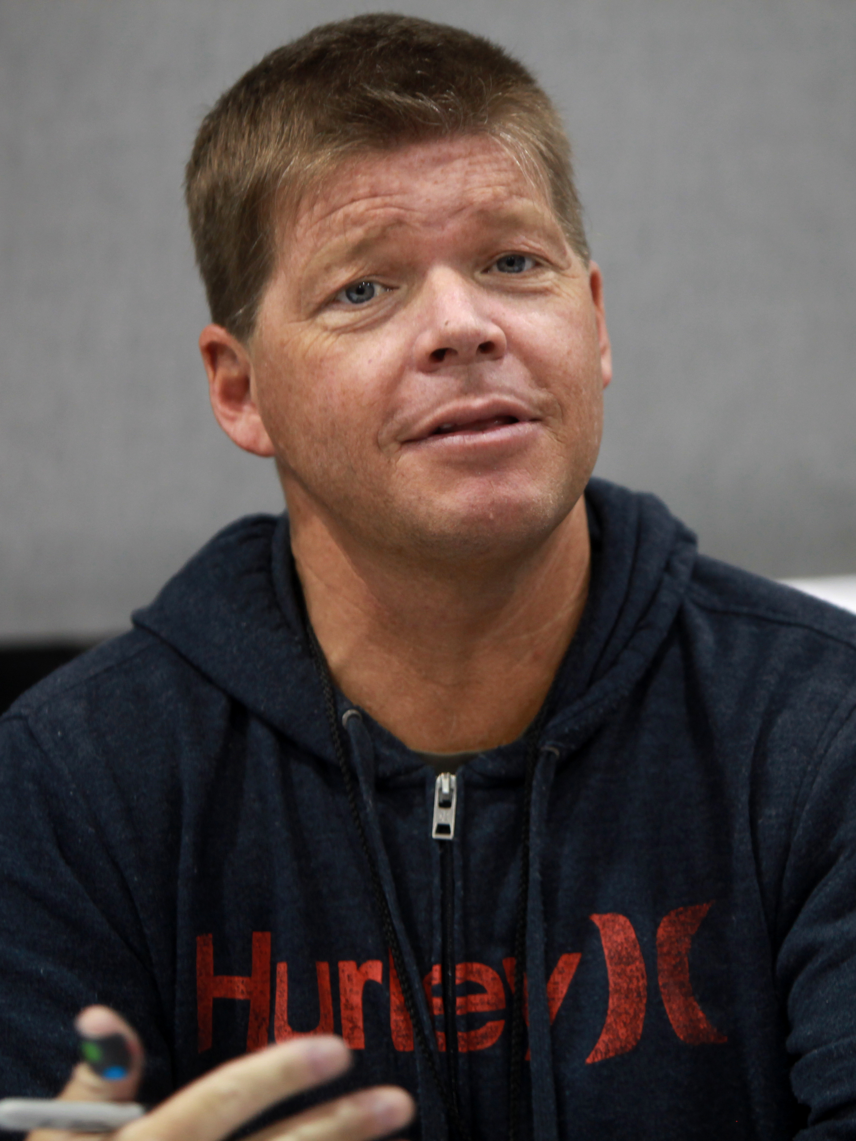 Rob Liefeld at the 2014 Amazing Arizona Comic Con at the Phoenix Convention Center in Phoenix, Arizona.